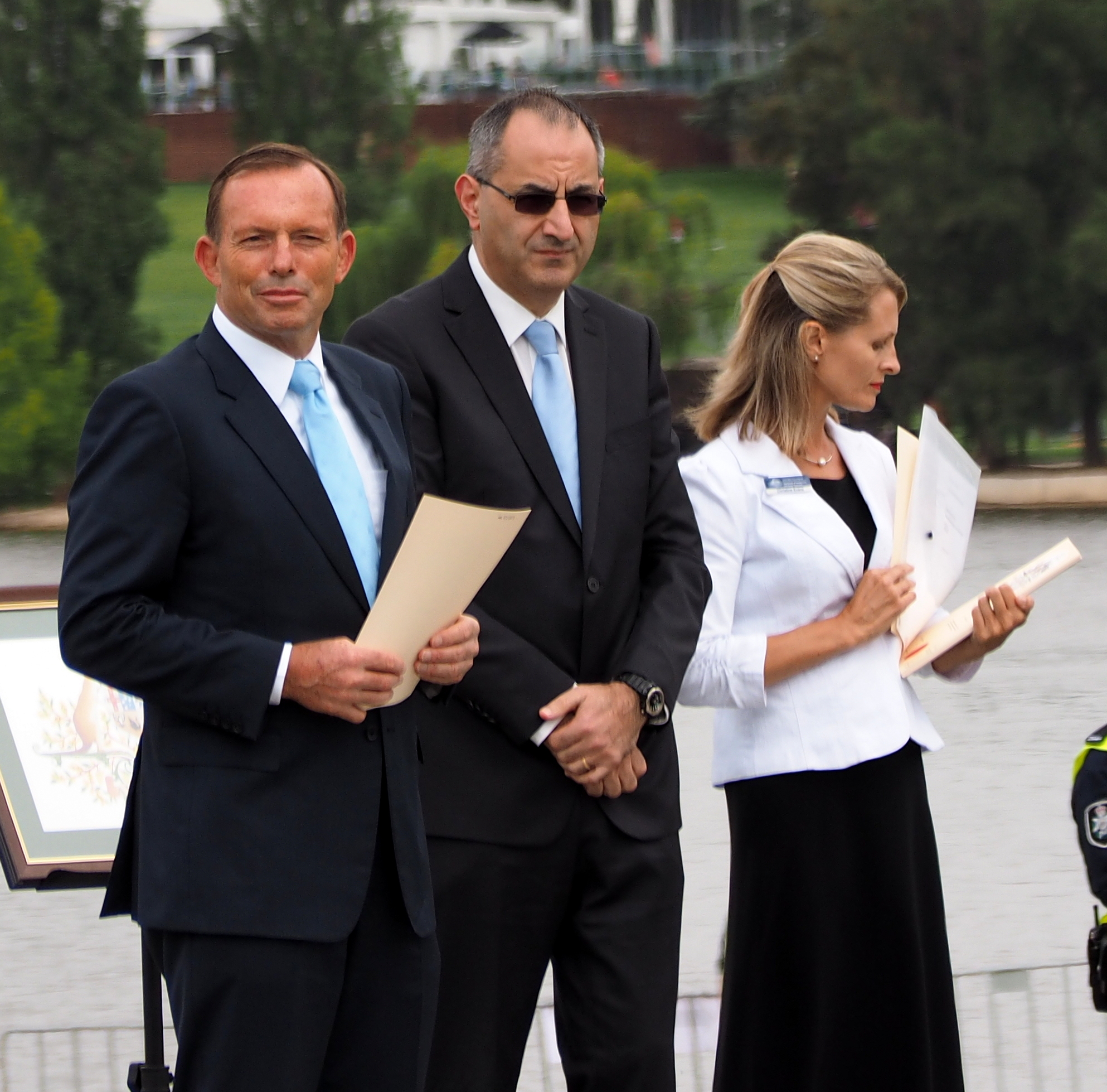 Prime Minister Tony Abbott and Secretary of the Department of Immigration and Border Protection Michael Pezzullo at the 2015 National Flag Raising and Citizenship Ceremony. The woman at the right of the photo is a public servant from the Department of Immigration and Border Protection.